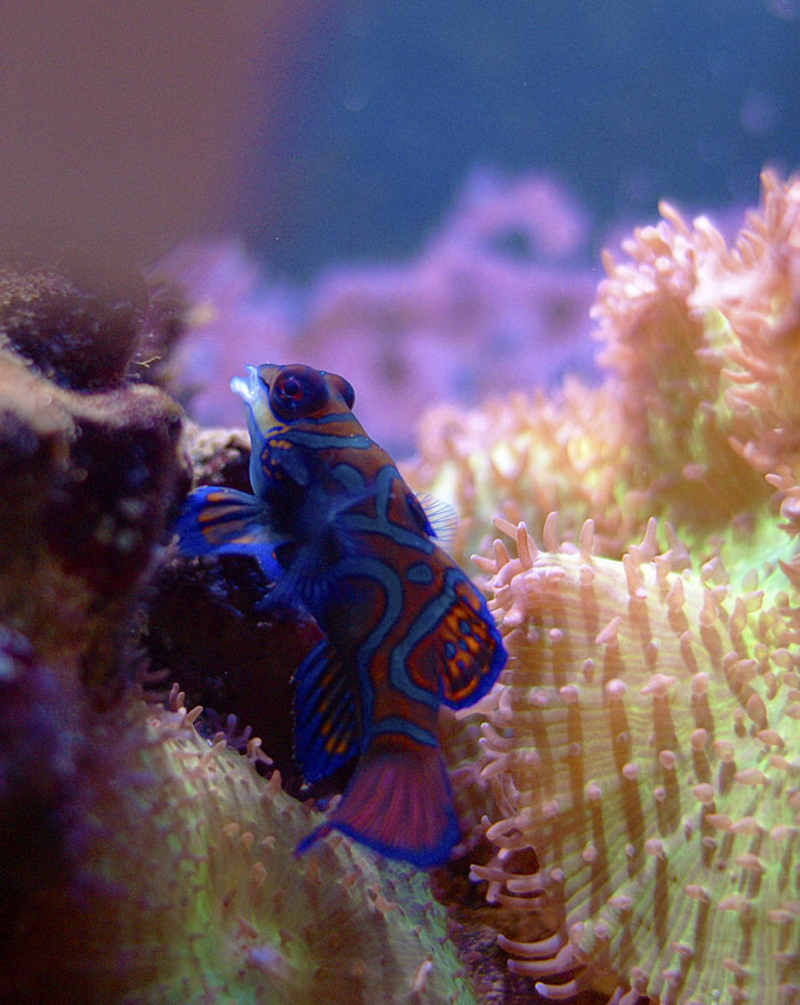 Green Mandarin